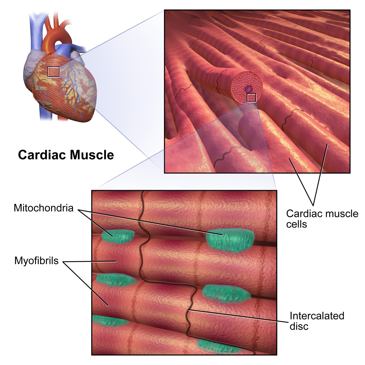 Cardiac Muscle. See a full animation of this medical topic.